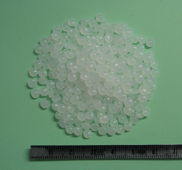 Linear low-density polyethylene (LLDPE) granules [copolymer ethylene - higher olefin (propene, butene...)]. LLDPE is a very common (co)polymer.